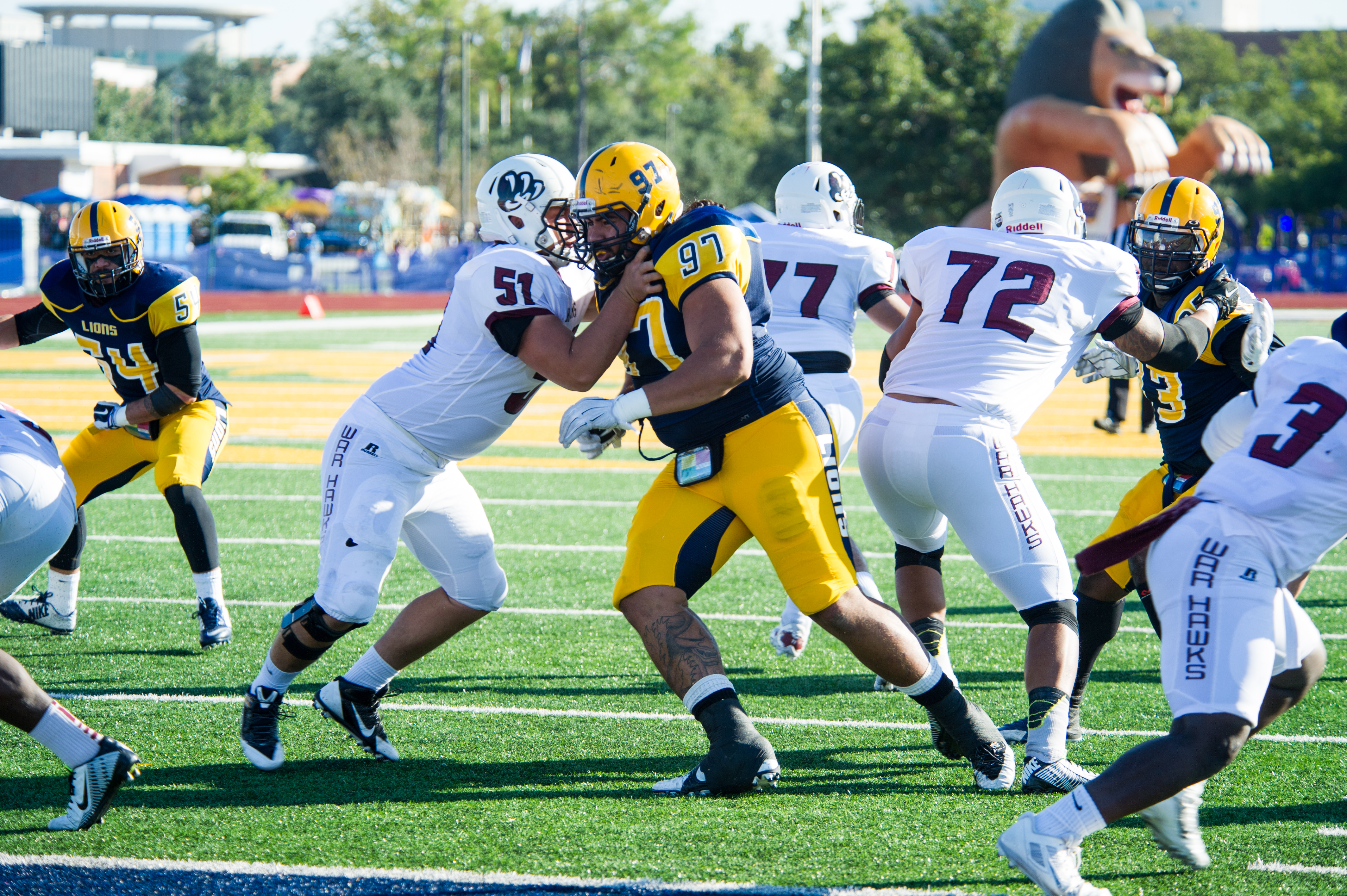 14497-Homecoming Football vs McMurray-9670.jpg Scenes from the McMurry War Hawks vs. Texas A&M–Commerce Lions football game and homecoming tailgate on November 1, 2014.